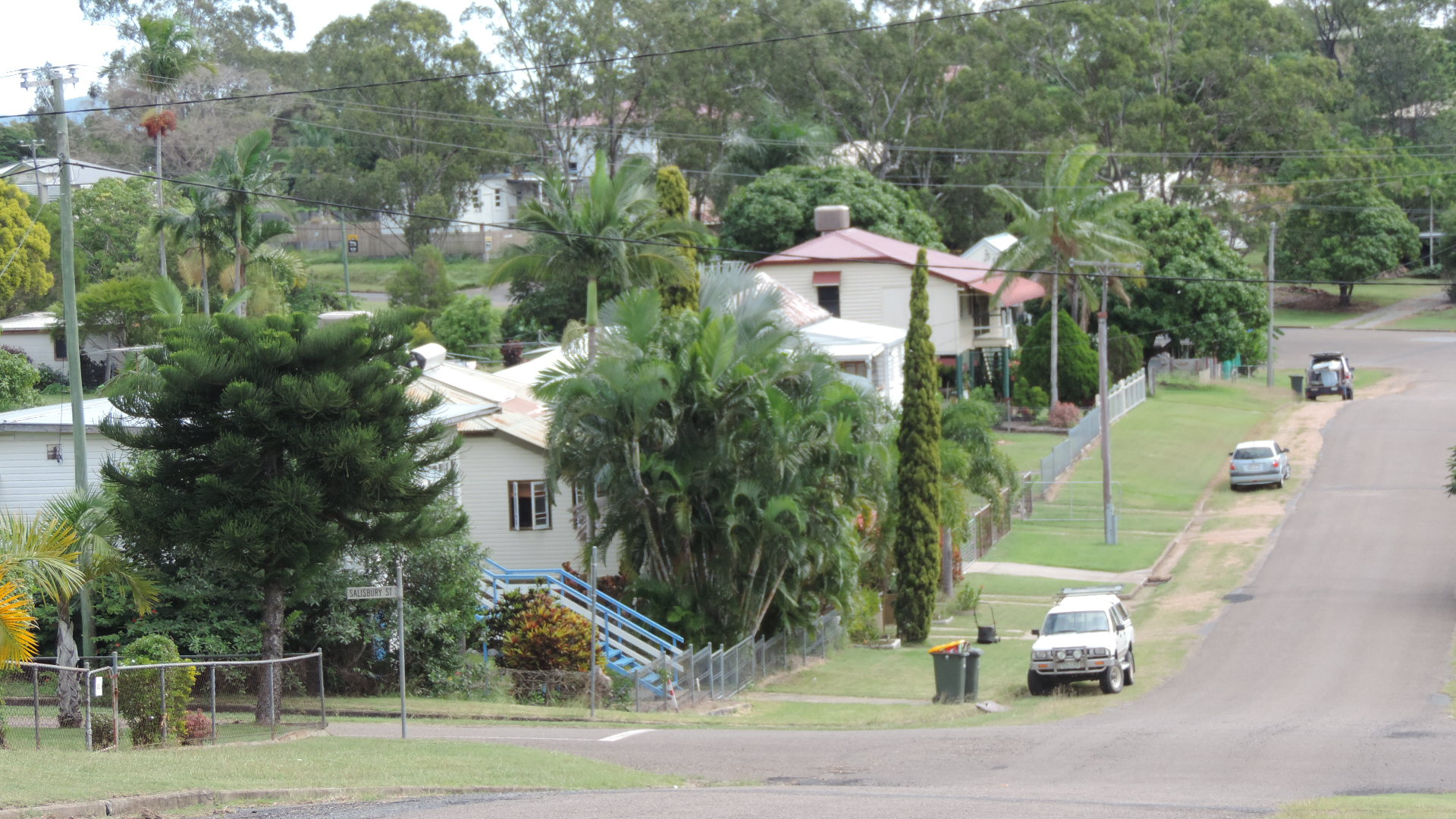 Housing, Gladstone Street, Mount Larcom, 2014